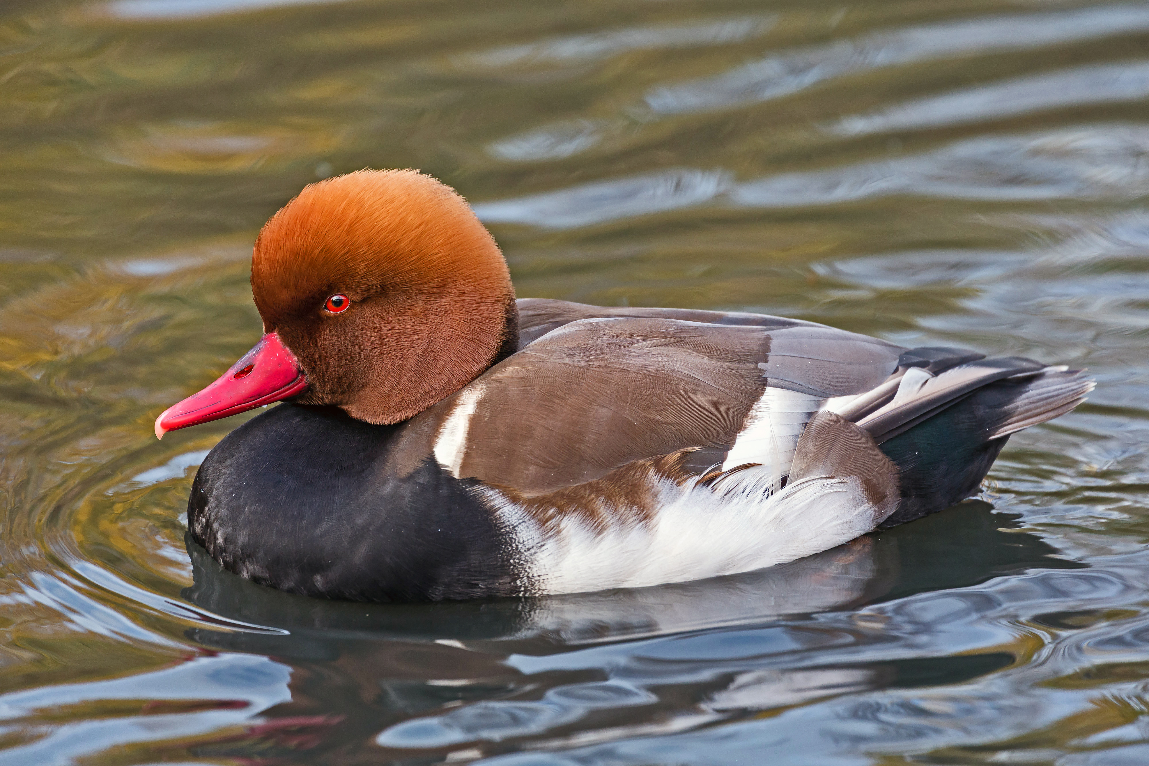 A male Netta rufina (Red-crested Pochard) at the London Wetland Centre in Barnes, UK.